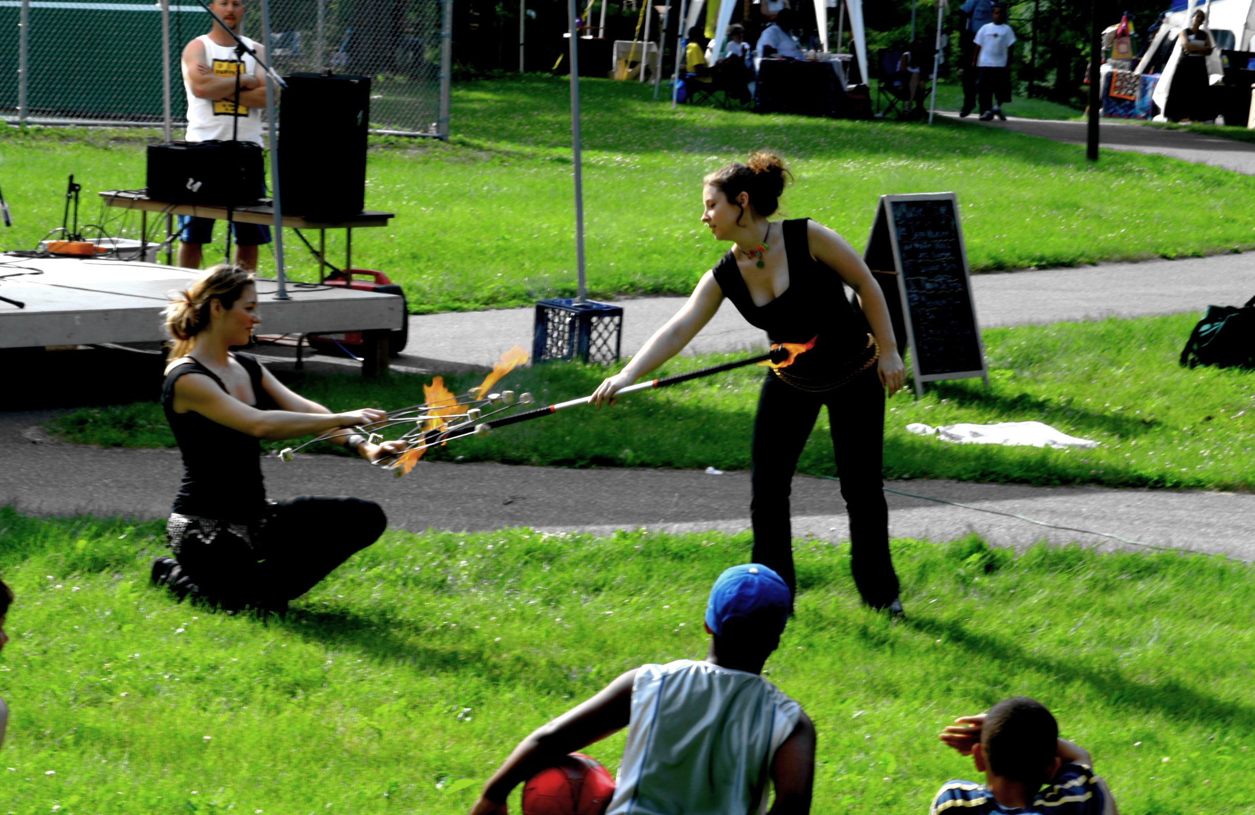 North Commons Park, Spring Art Party, Minneapolis, Minnesota